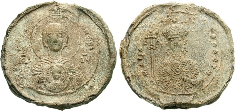 Maria of Alania. Empress 1071/3-81. PB Seal (39mm, 32.24 g, 12h). [QEOTOKE B]OHQEI in circular inscription; MP (ligate) and QV across field; bust of Theotokos facing, wearing chiton and maphorion, holding medallion of child Christ before her chest / MARIA [C]EBACTH, crowned bust of Maria, holding scepter surmounted by cross over crescent in right hand, left hand raised before chest. BLS I -; DOCBS -; Seyrig -; Vatican -; Orghidan -; Jordanov -. Good VF, light tan patina, minor repair on the obverse. From the Collection of Robert E. Hecht. Ex Gorny & Mosch 155 (March 5, 2007), lot 413. Maria, a Georgian princess renowned for her beauty and intelligence, became the wife of two emperors. In 1070 she married Michael VII Ducas, with whom she had her only child, Constantine. When Michael was forced to abdicate and retire to a monastery in 1078, she married his successor, Nicephorus III Botaniates, on the condition that he name Constantine his heir. Nicephorus eventually disinherited Constantine, and Maria lent her support to Alexius I. For a moment, it appeared that Maria might become empress for a third time; upon Alexius’ accession, she stayed in the imperial palace for a week, while Alexius hesitated crowning his young wife Eirene Doukaina. Under pressure from the patriarch of Constantinople Eirene was crowned, and Maria left the palace. Her political career effectively ended with the death of Constantine. She became a nun, but retained a court at her palace and actively sponsored numerous literary figures until her death sometime after 1103.